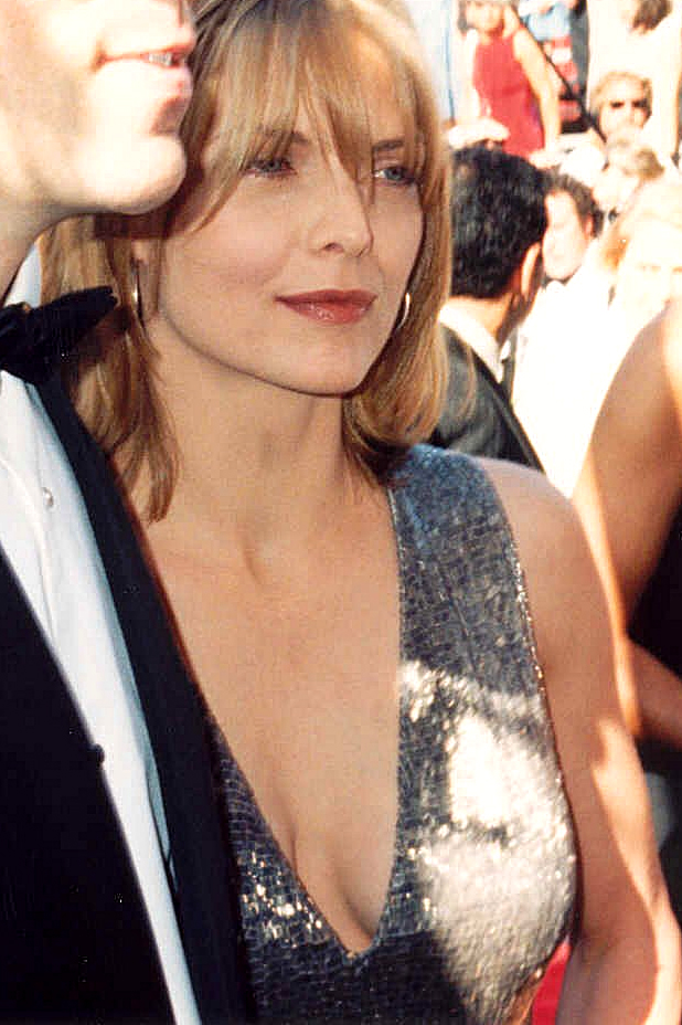 Michelle Pfeiffer taken at the 47th Emmy Awards, 9/11/94